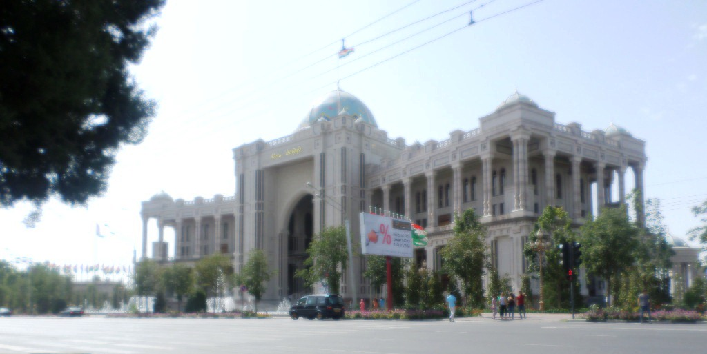 Chaykhona Nauruzgokh, Dushanbe, Tajikistan